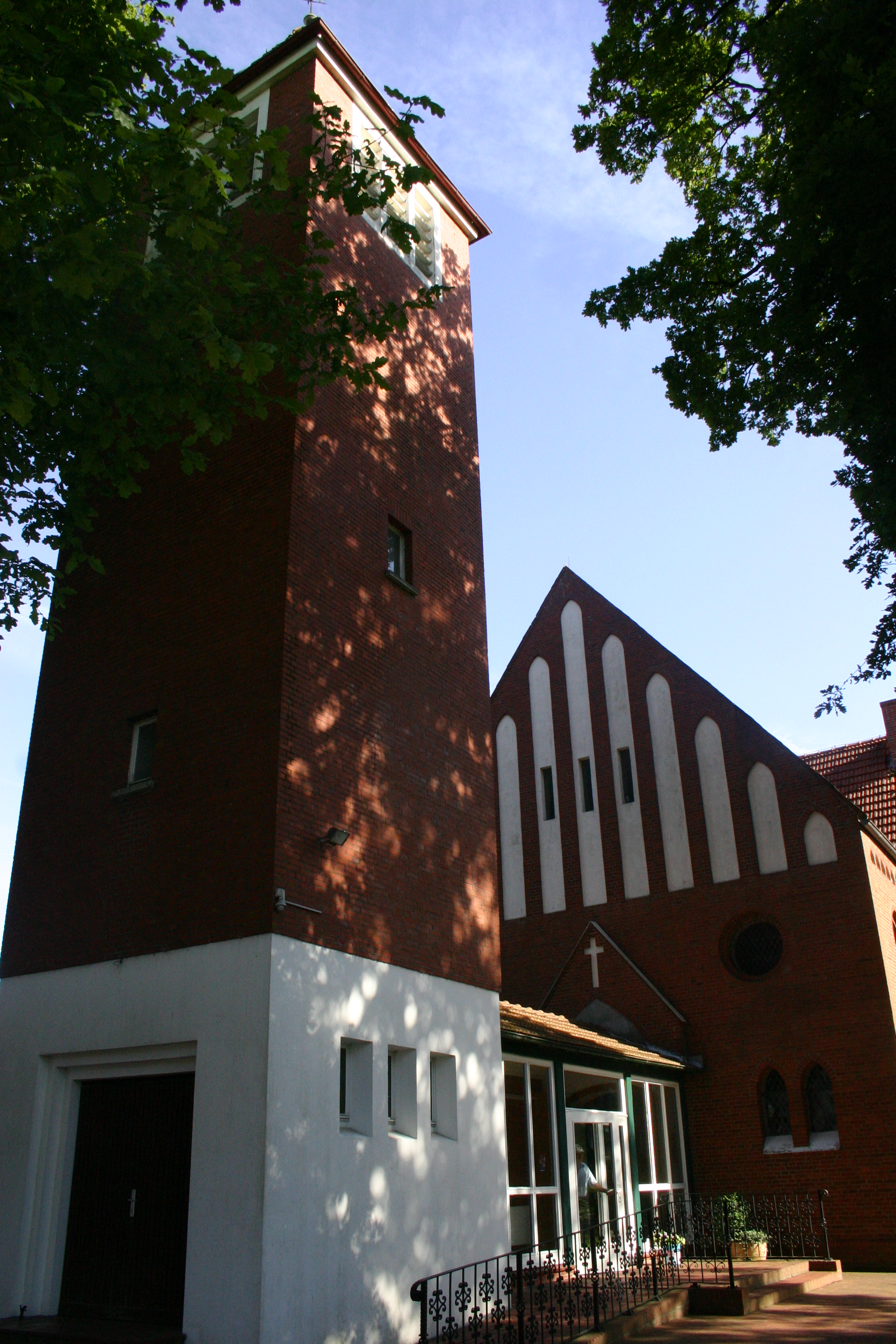 Historic Christ Church in Völlenerkönigsfehn, district of Leer, East Frisia, Germany